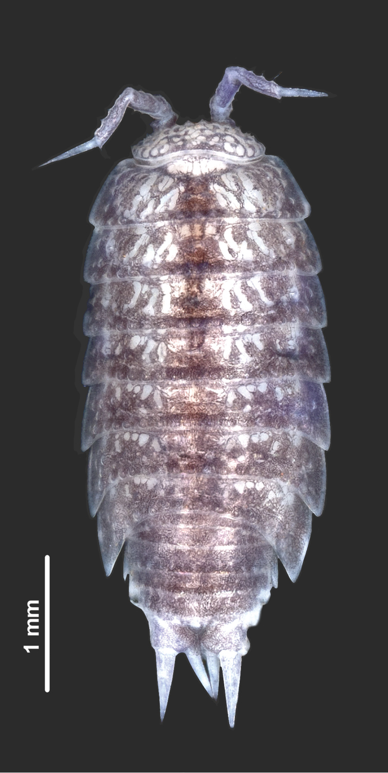 Styloniscus manuvaka. Female paratype in dorsal view.